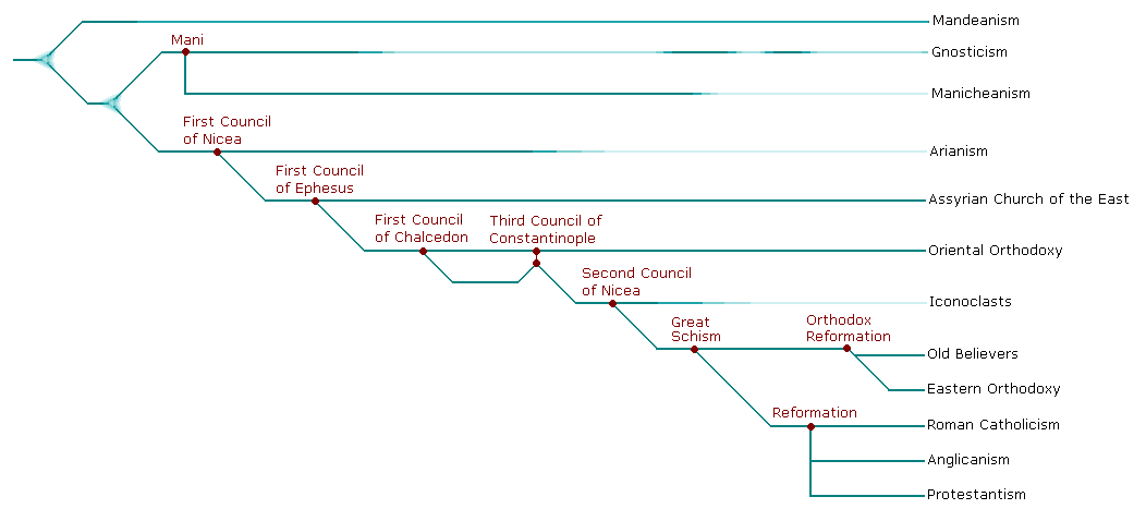 Graphical depiction of the major christological schisms in Christian history, and the associated major ecumenical Councils